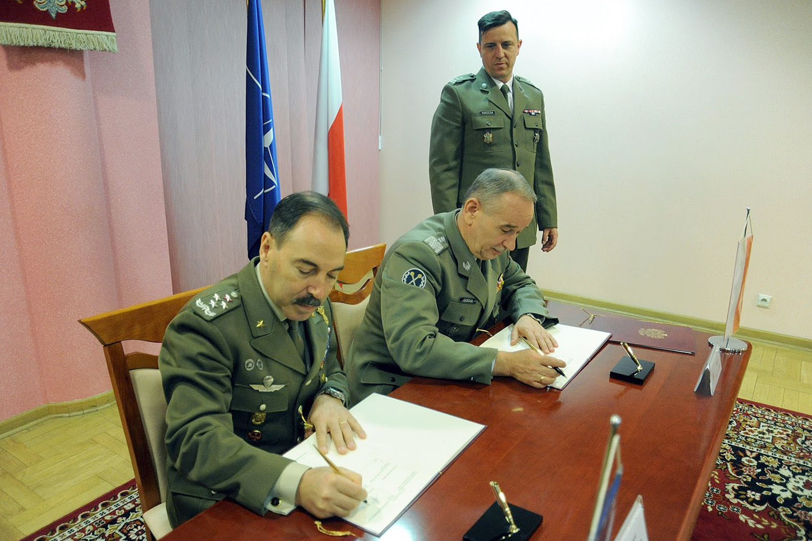 Generals FARINA and GOCUL sign the NATO Force Integration Unit Base Support Arrangement on behalf of the Supreme Allied Commander Europe and the Polish Minister of National Defence, respectively.